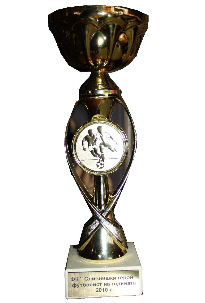 Cup football player of 2010 year, Slivnishki geroi, Slivnitsa